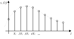 Image copied and edited ?apart from?